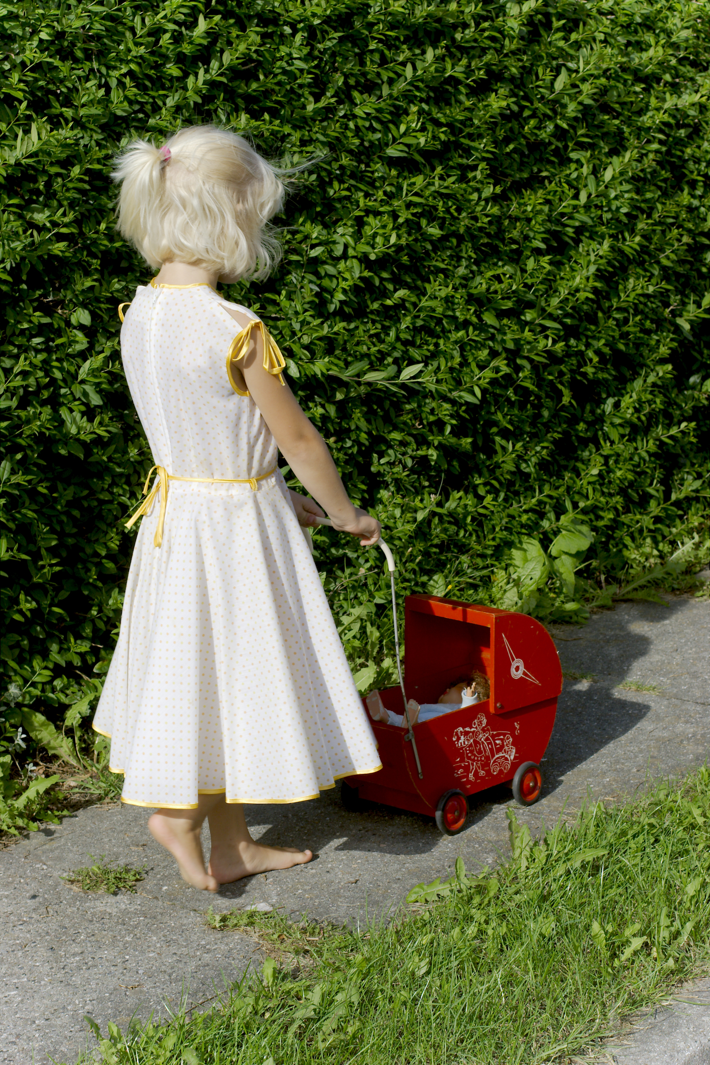 Girl with red baby cars